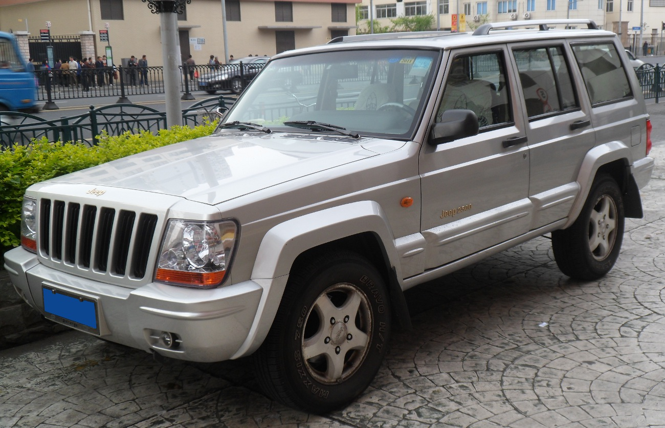 Beijing Jeep 2500 Cherokee photographed in Shanghai, China.